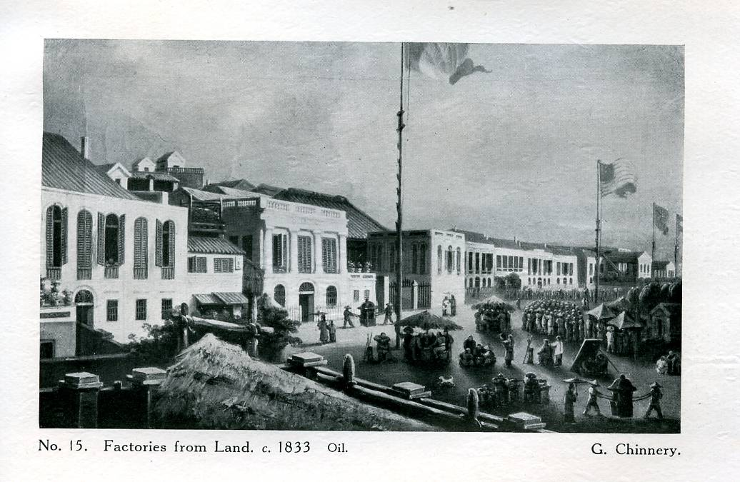 View, from land, of the Thirteen Factories. Many Chinese figures are shown – pedlars, barbers, etc., no Europeans; and an official procession is to be seen in the distance.